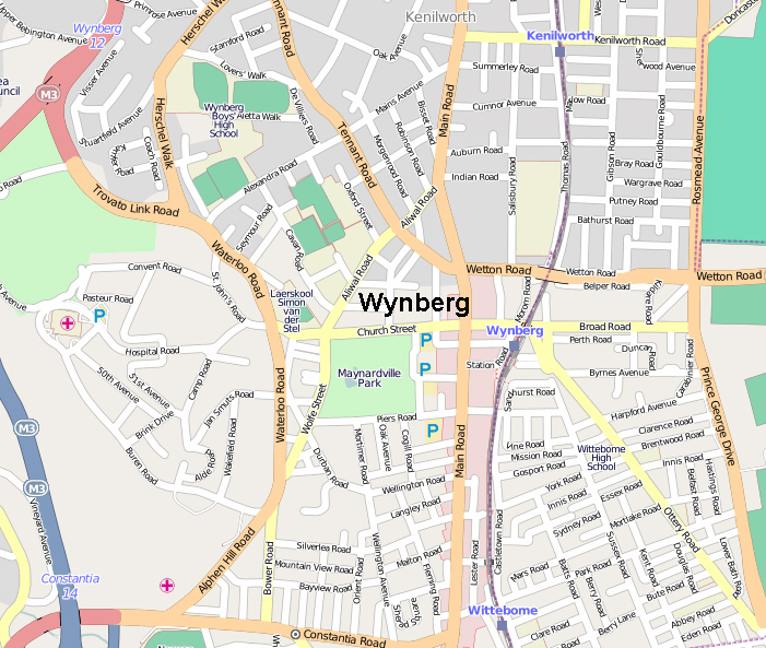 This map of Wynberg in Cape Town was created from OpenStreetMap project data, collected by the community